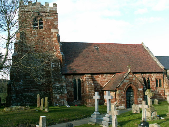 St Andrew's parish church Great Ness, Shropshire, seen from the south